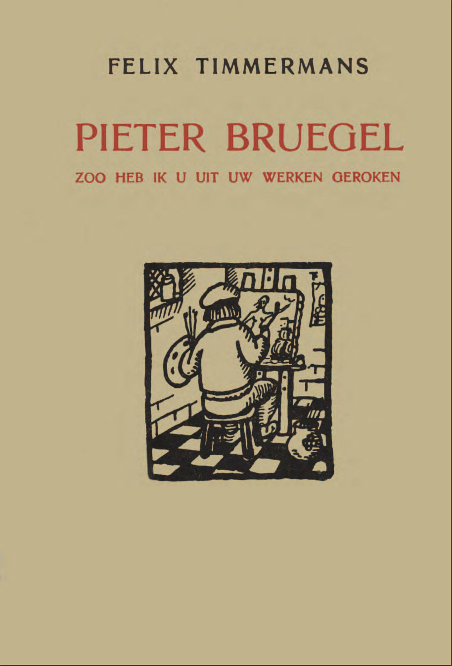 Illustration Pieter Breughel zoo heb ik u uit uwe werken geroken